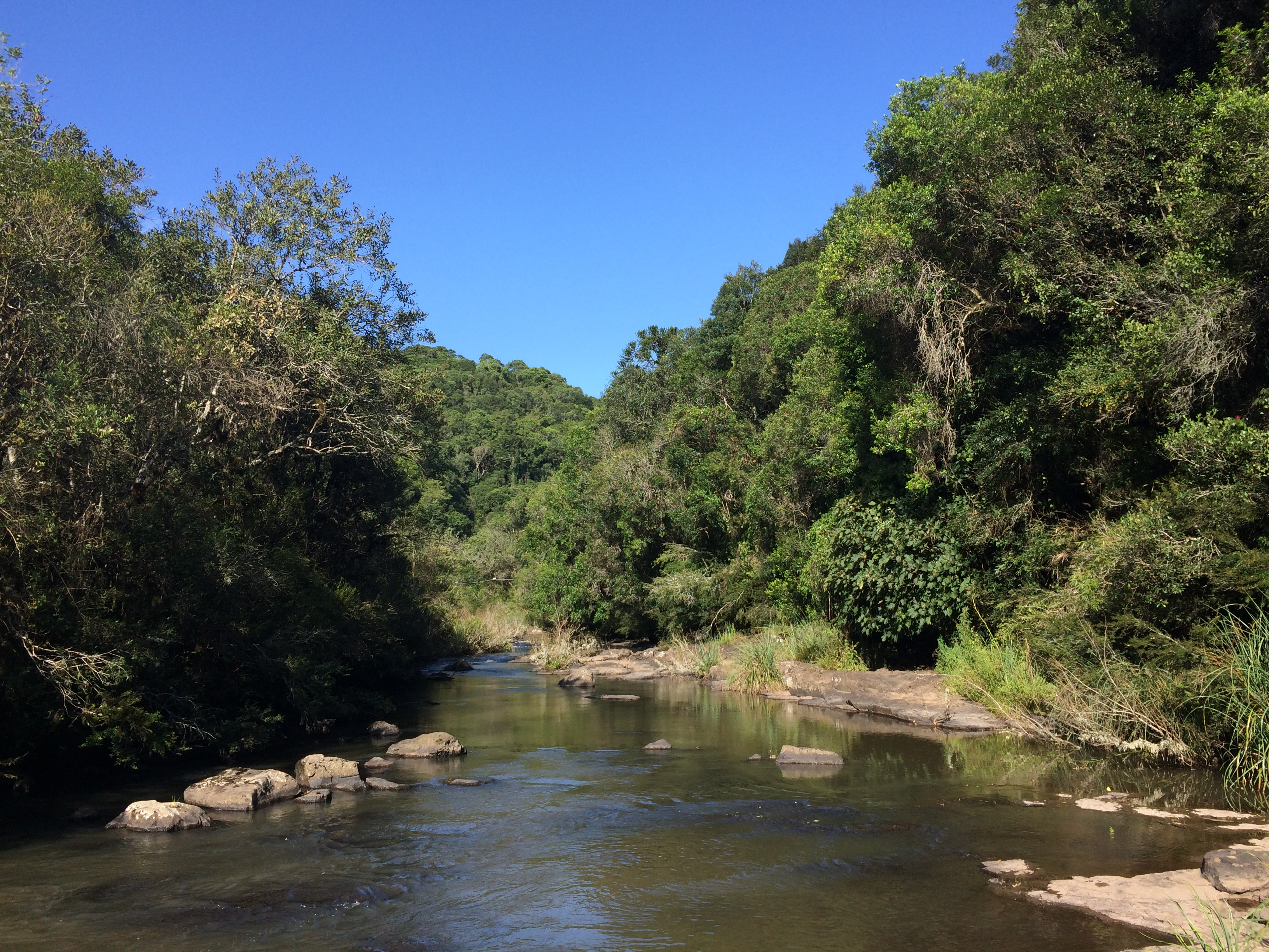 Sao Marcos River, in Rio Grande do Sul, Brazil.